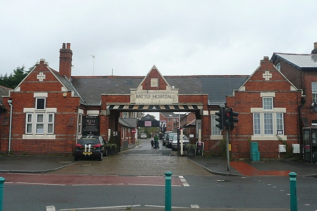 Battle Hospital entrance. The hospital is now closed and the area being developed for housing, as West Village. This entrance off Oxford Road was for a long time pedestrian only, with vehicle access to a few NHS offices which remain. Therefore this notice 996082 on the gate to the right may still be valid.